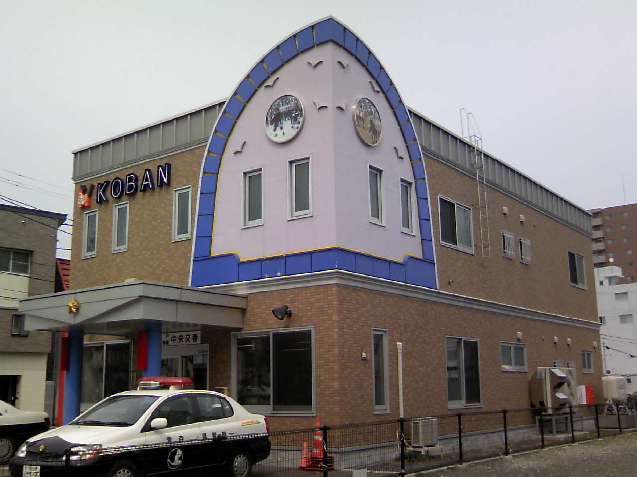 八戸中央交番（郷土芸能えんぶり＆八幡馬デザイン） (Hachinohe Chuo Koban (Police Station) - HACHINOHE, AOMORI, JAPAN)